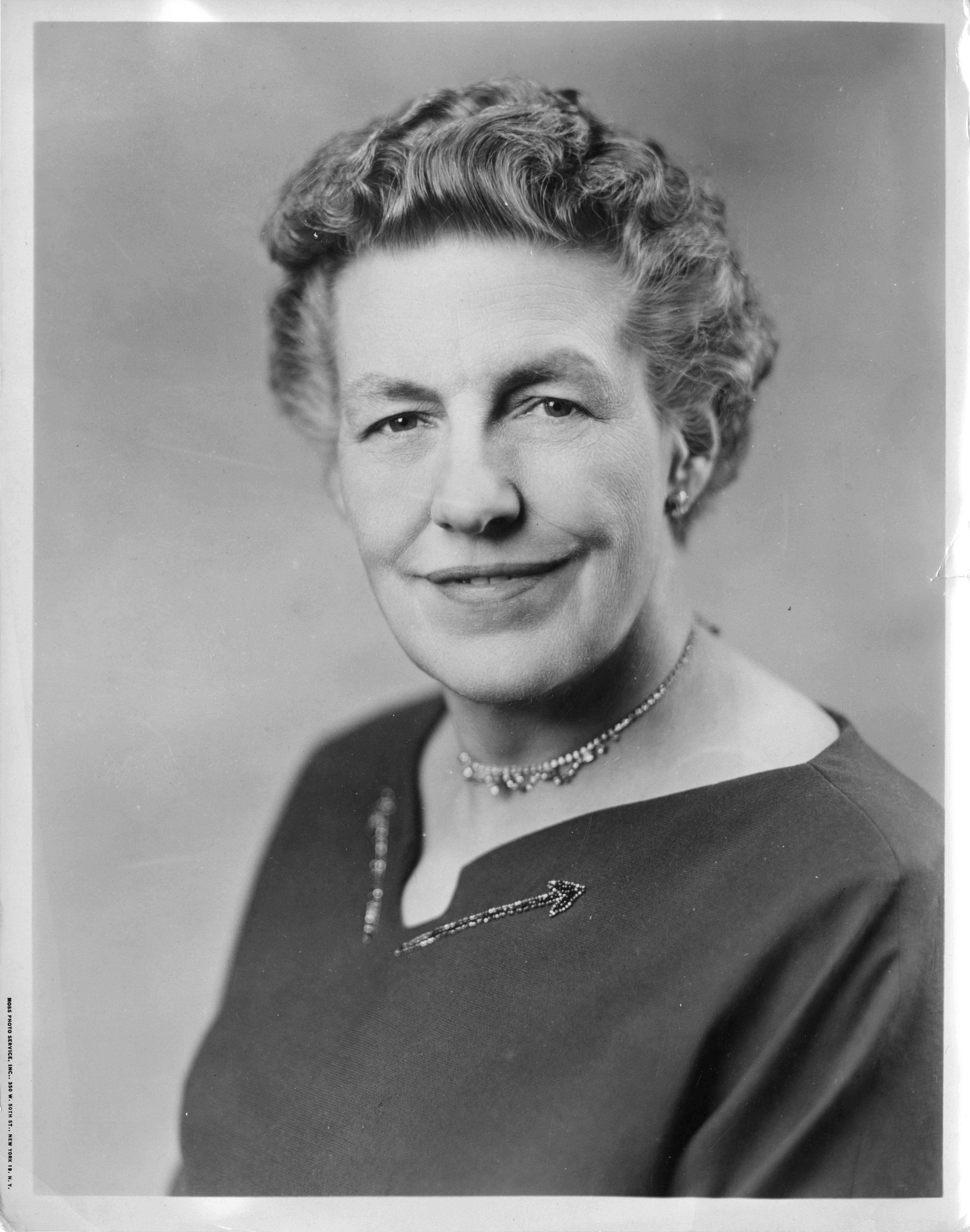 Description: Mary Elizabeth Switzer (1900-1971) was Director of the Office of Vocational Rehabilitation in the U.S. Department of Health, Education, and Welfare and co-winner of the Lasker Award in 1960 with Paul Wilson Brand (1914-2003), a missionary surgeon in Velore, and Gudmund Harlem, Norwegian Royal Minister of Health and Social Affairs. Switzer was known for her work on the 1954 Vocational Rehabilitation Act, which expanded services for people with disabilities. Creator/Photographer: Unidentified photographer Medium: Black and white photographic print Persistent URL: [1] Repository: Smithsonian Institution Archives Collection: Science Service Records, 1902-1965 (Record Unit 7091) - Science Service, now the Society for Science & the Public, was a news organization founded in 1921 to promote the dissemination of scientific and technical information. Although initially intended as a news service, Science Service produced an extensive array of news features, radio programs, motion pictures, phonograph records, and demonstration kits and it also engaged in various educational, translation, and research activities. Accession number: SIA2009-0979